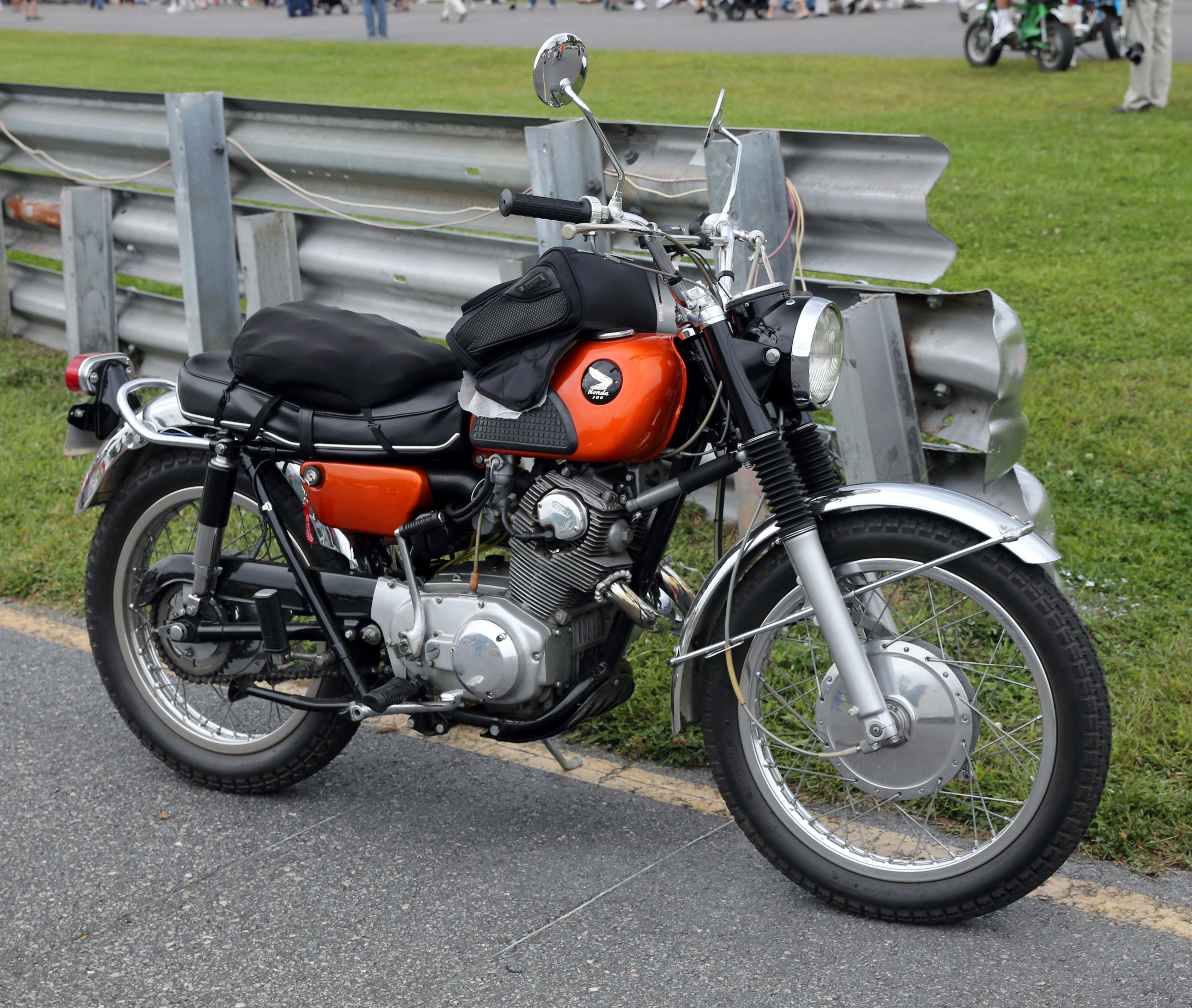 A late sixties Honda Scrambler 300 (CL77) at the 2014 Lime Rock Concours d'Élegance. This is the offroad version of the C77 Dream.